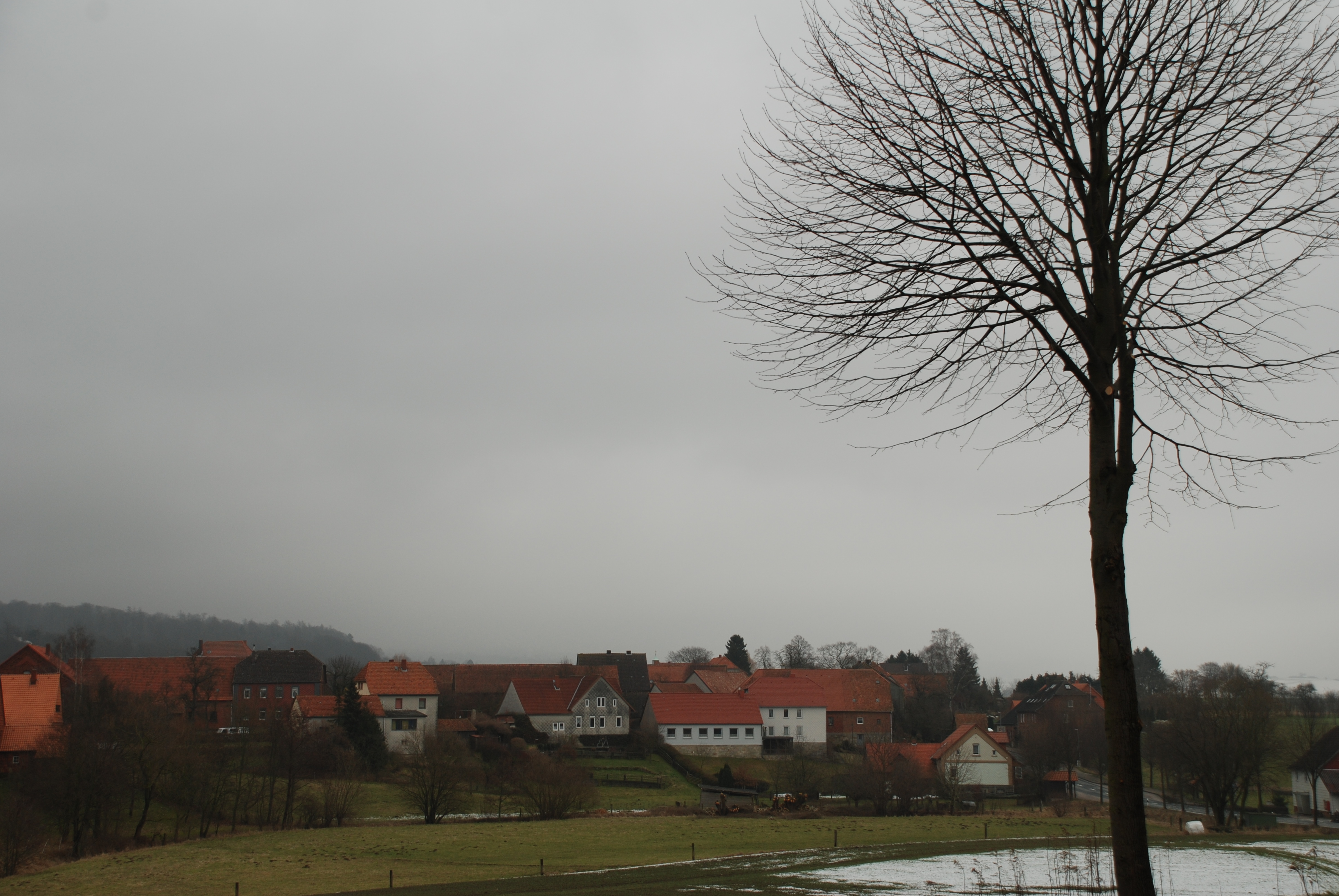 Image of the village Brullsen in Lower-Saxony, Germany.